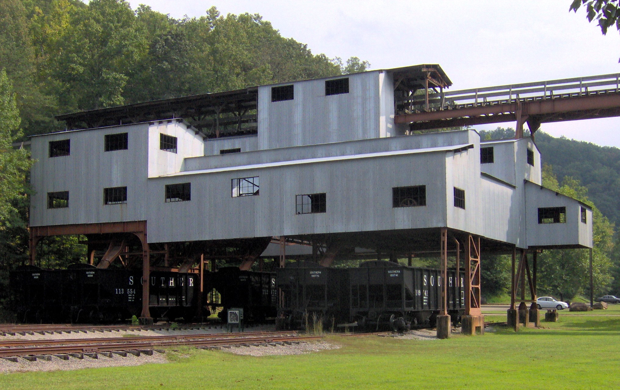 Coal tipple at the Blue Heron mining community in the Big South Fork National River and Recreation Area. The tipple was built by the Stearns Coal and Lumber Company in the 1930s and restored by the National Park Service in the 1980s.